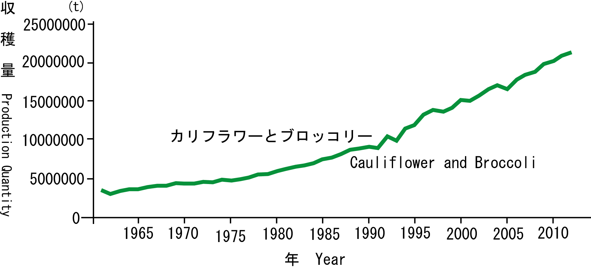 This graph shows production quantity of Cauliflower & Broccoli in the world from 1961 to 2012. Data source is FAOSTAT.